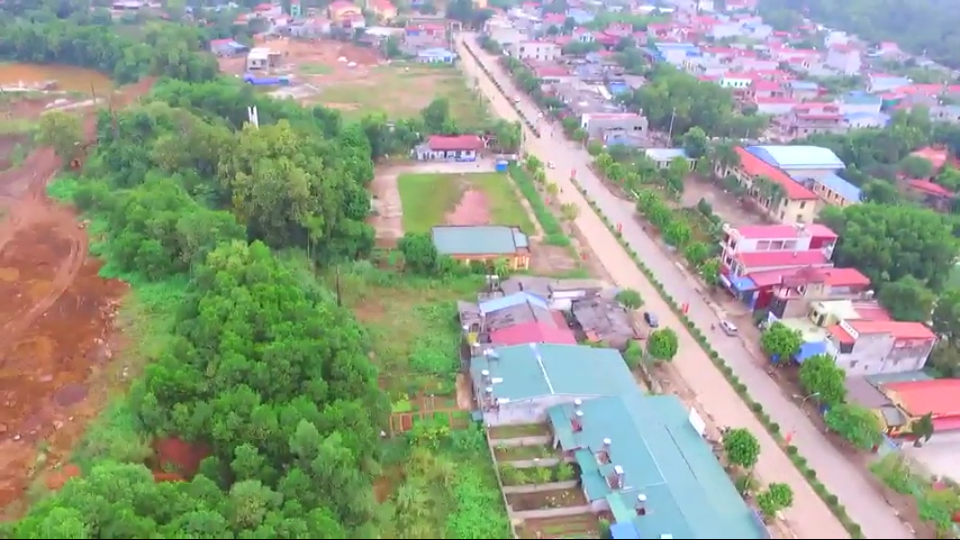 Thị trấn Trại Cau và mỏ sắt Trại Cau